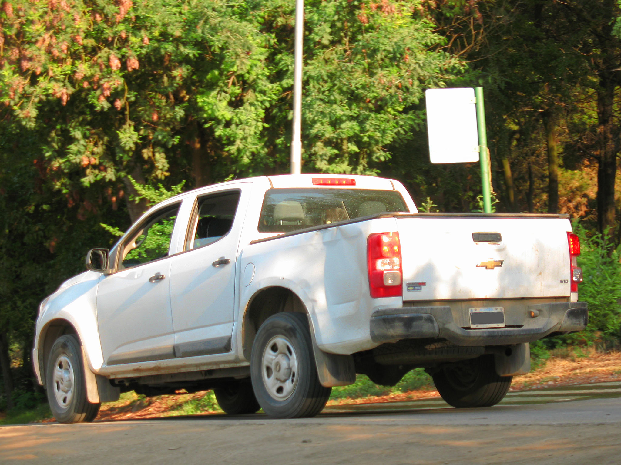 Brazilian-made S10, with argentinian plates.